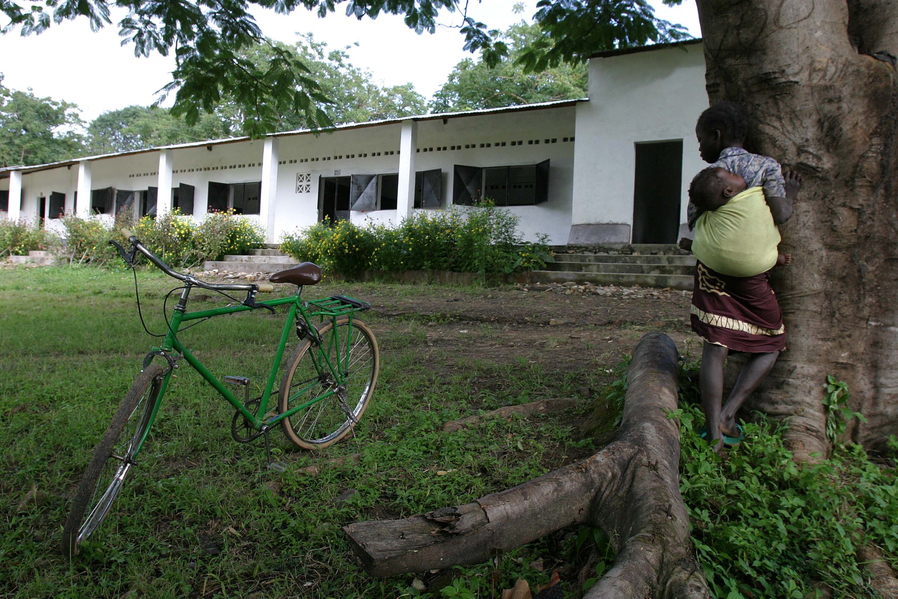 A school in Paoua. Credits: Pierre Holtz | OCHA